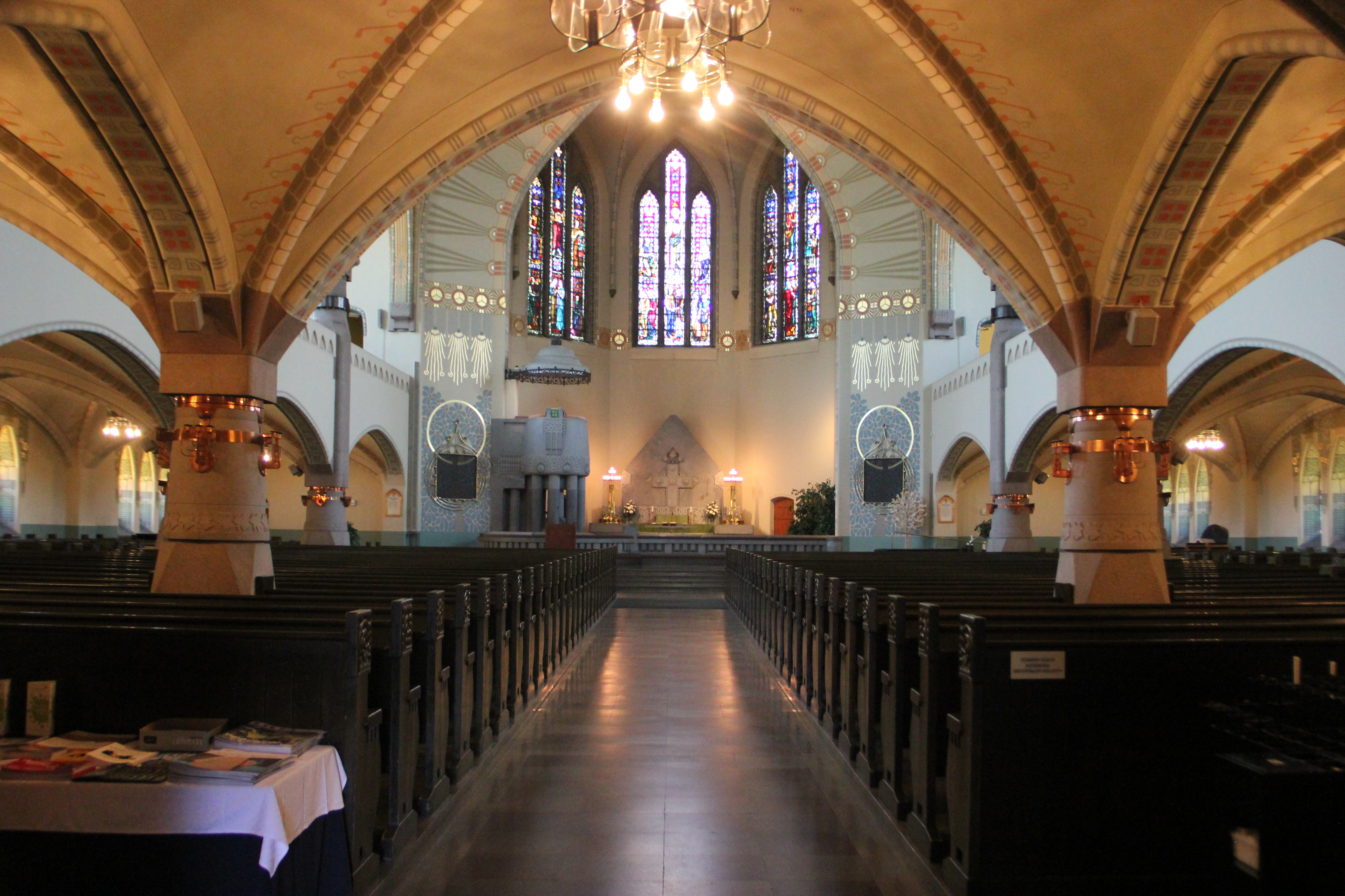 St. Michael's Lutheran Church in Turku, Finland, Architect Lars Sonck 1894, the church was completed in 1905